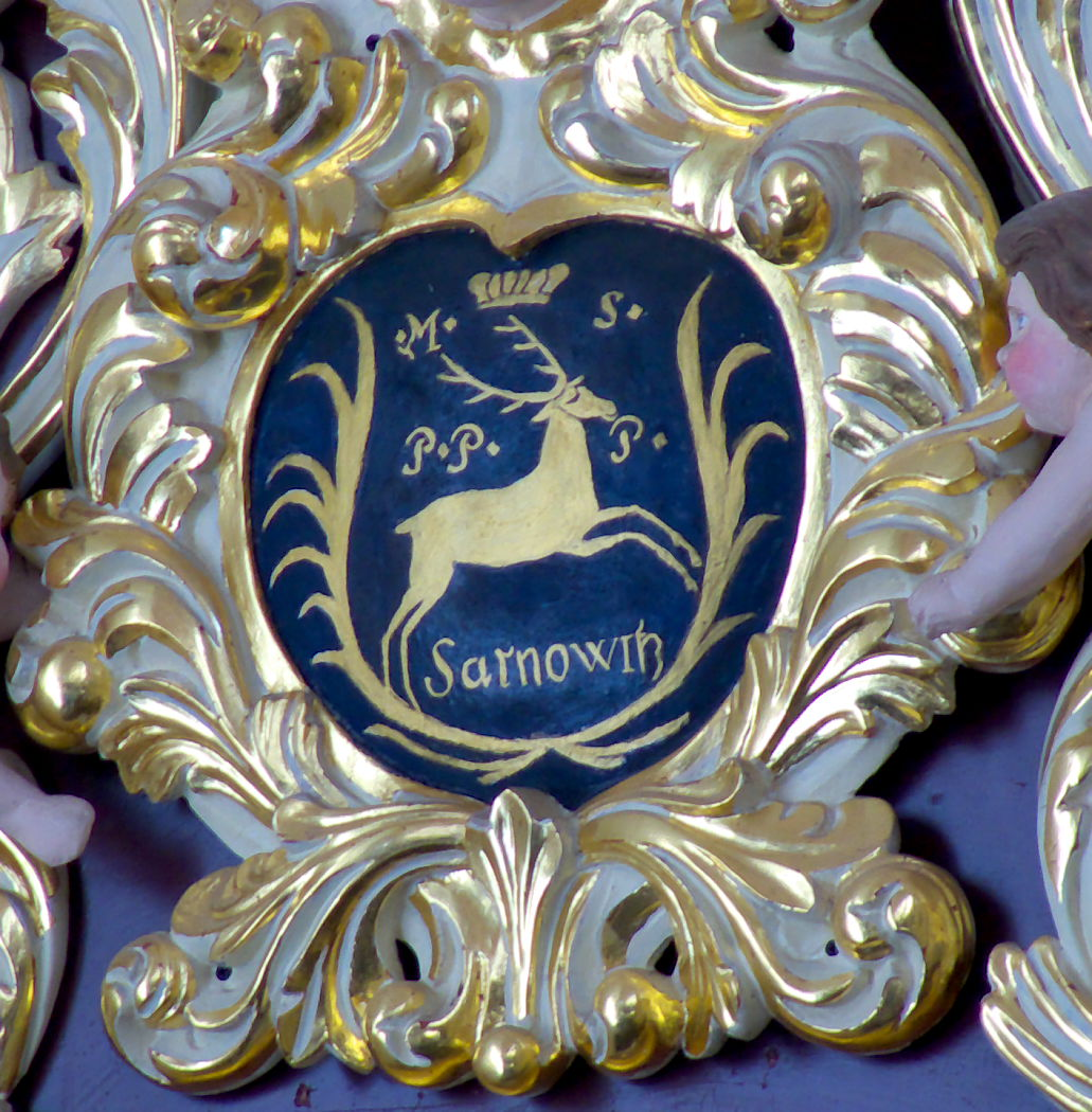 In Żarnowiec church